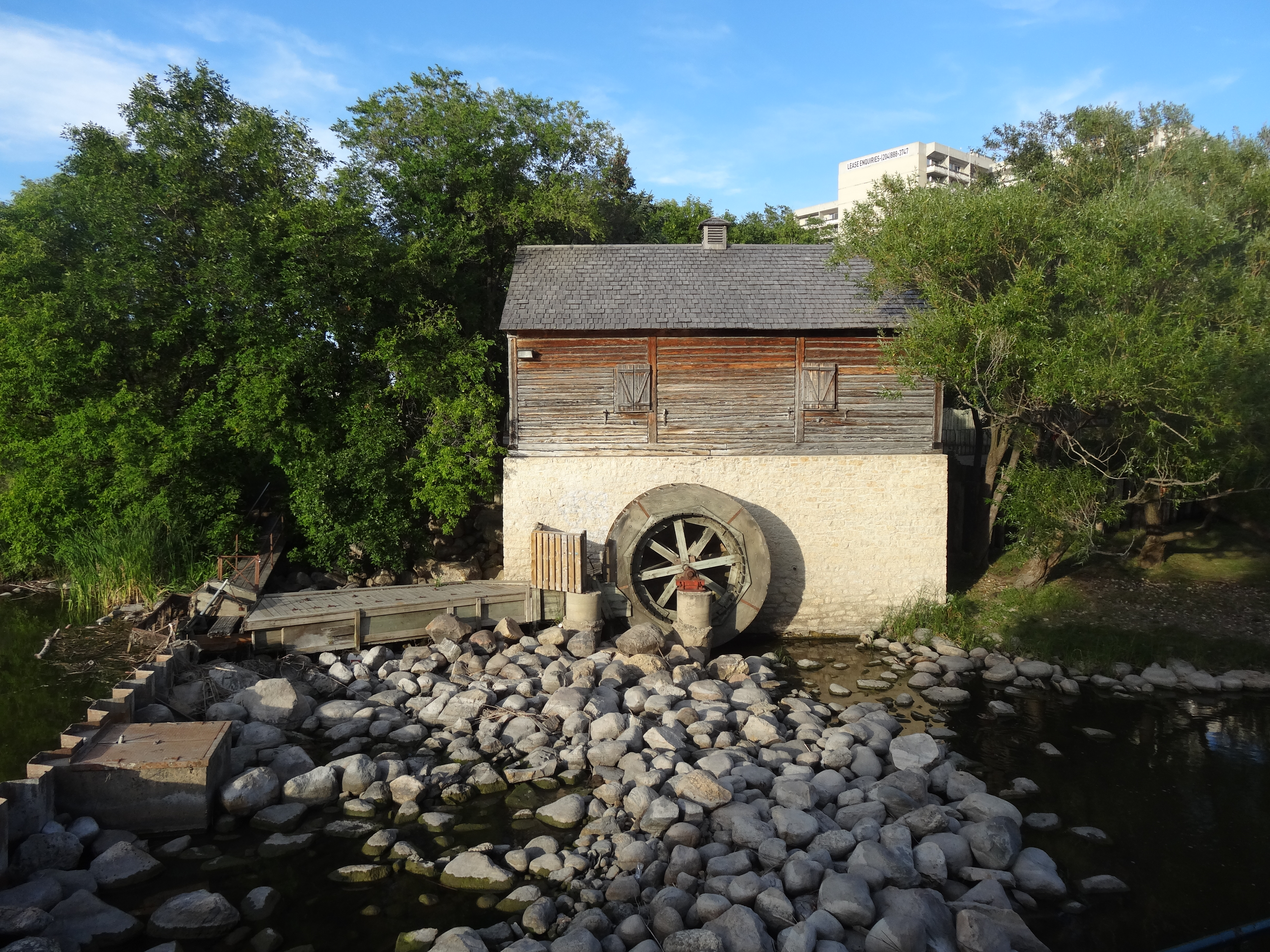 Grant's Old Mill, a working replica mill constructed in the Assiniboa-St. James area of Winnipeg